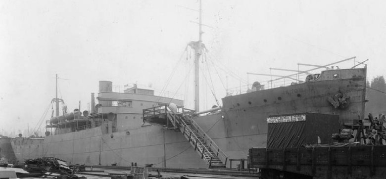 SS Jacona on 25 January 1919